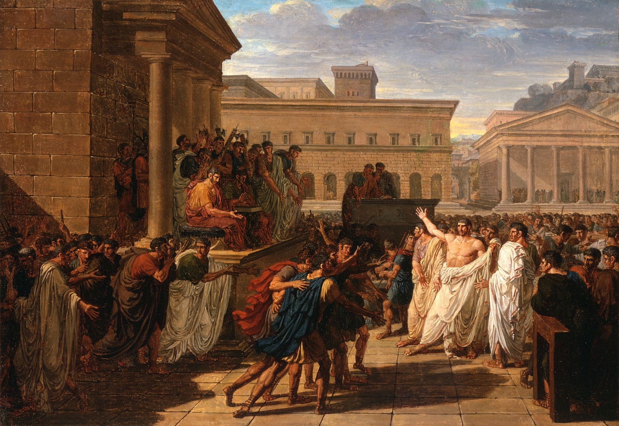 France, circa 1815 Paintings Oil on canvas 19 1/4 x 27 1/2 in. (48.90 x 69.85 cm) The Ciechanowiecki Collection, Gift of The Ahmanson Foundation (M.2000.179.34) European Painting Currently on public view: Ahmanson Building, floor 3